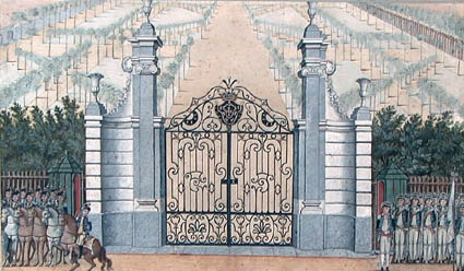 Inauguration of the Passeio Público (Public Park) in Rio de Janeiro, Brazil